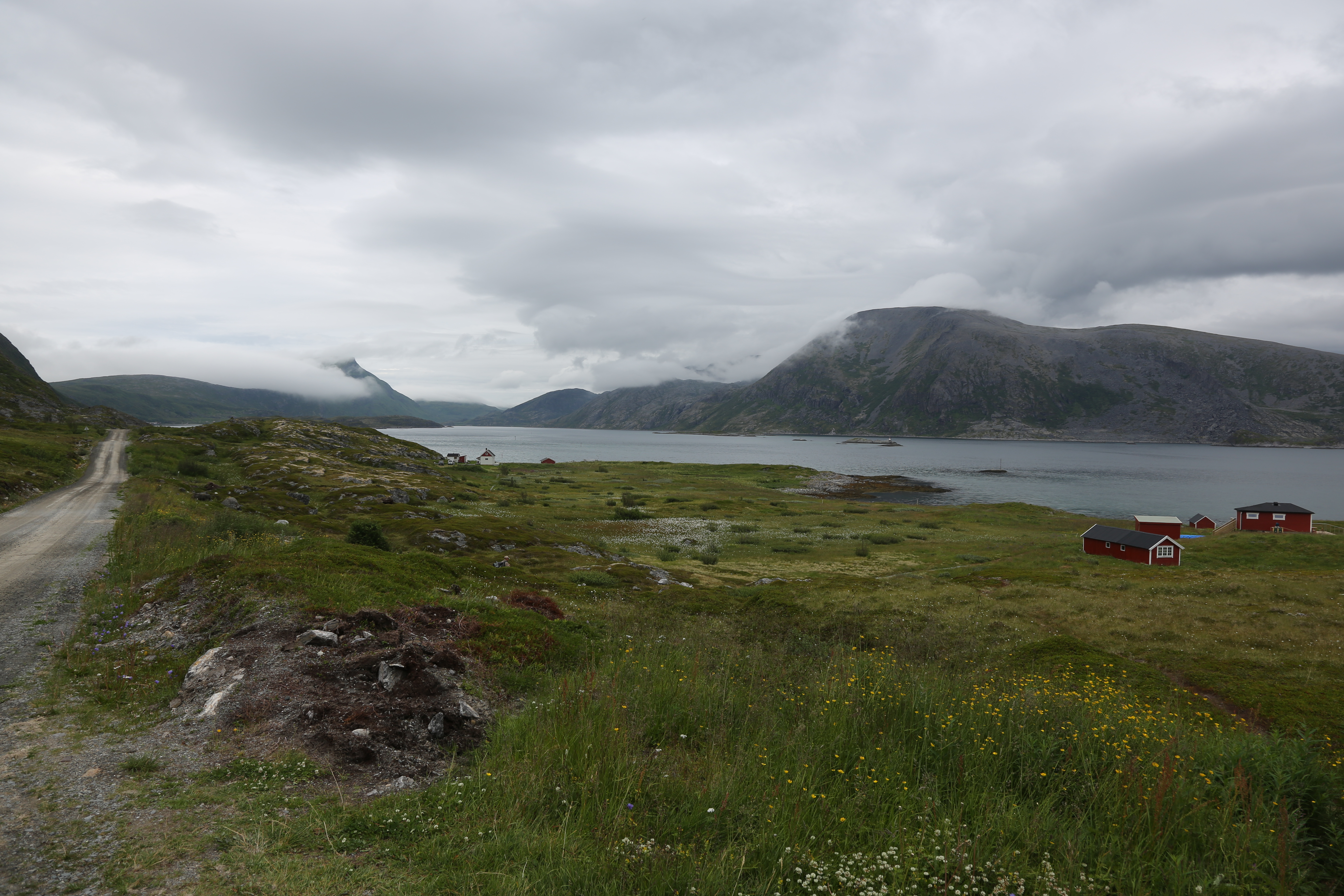 Hasfjorden, Hasvik kommune, Finnmark